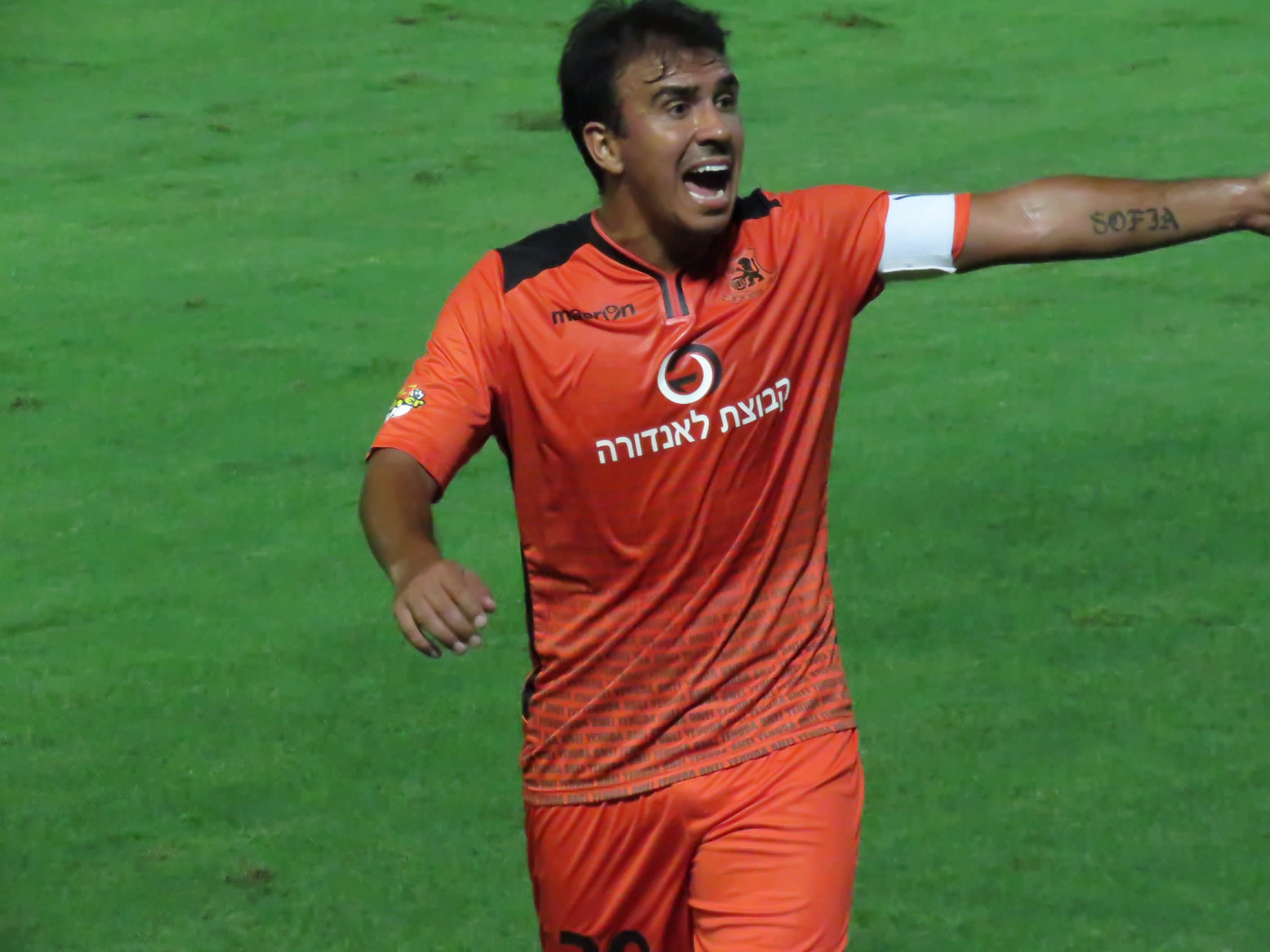 Bnei Yehuda Tel Aviv vs. Beitar Jerusalem - 19 September, 2015